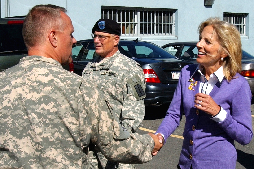 Jill Biden, wife of Vice President Joe Biden, greets Col. Michael Bobeck, commander of the 42nd Combat Aviation Brigade, during a visit to New York National Guard headquarters in Latham, N.Y., Sept. 21, 2009.